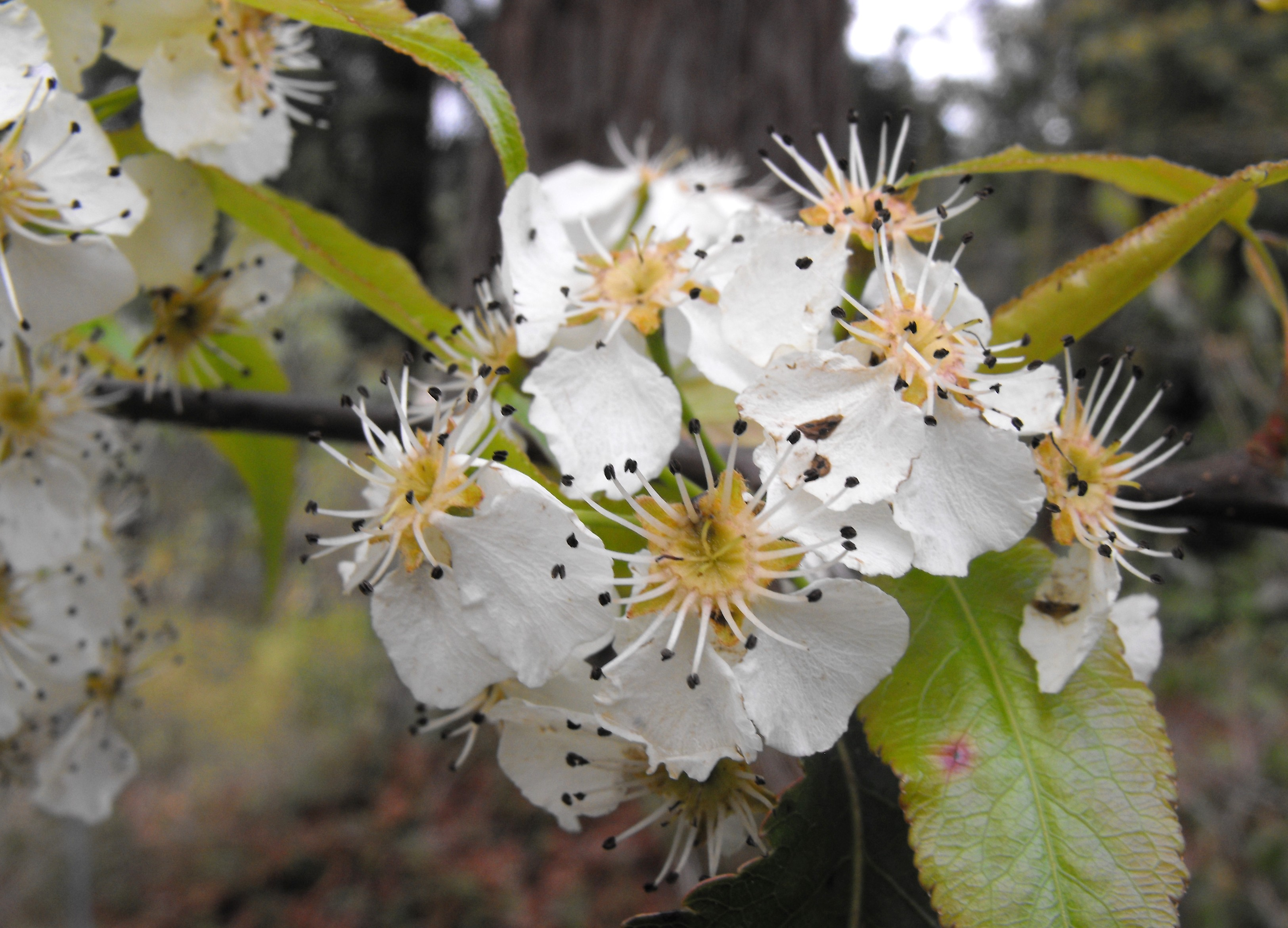 Pyrus pashia at the UC Berkeley Botanical Garden, California, USA. Identified by sign.